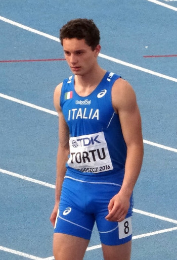 2016 IAAF World U20 Championships in Bydgoszcz, 4x100m relay men final, Italian sprinter Filippo Tortu.